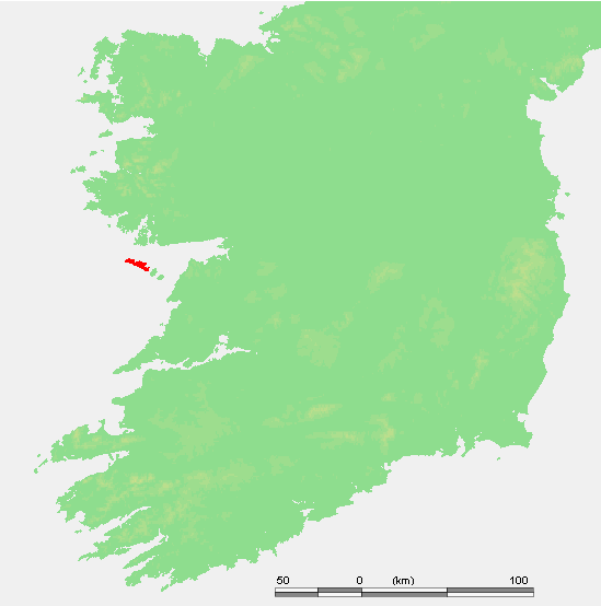 Ireland - Inishmore.PNG